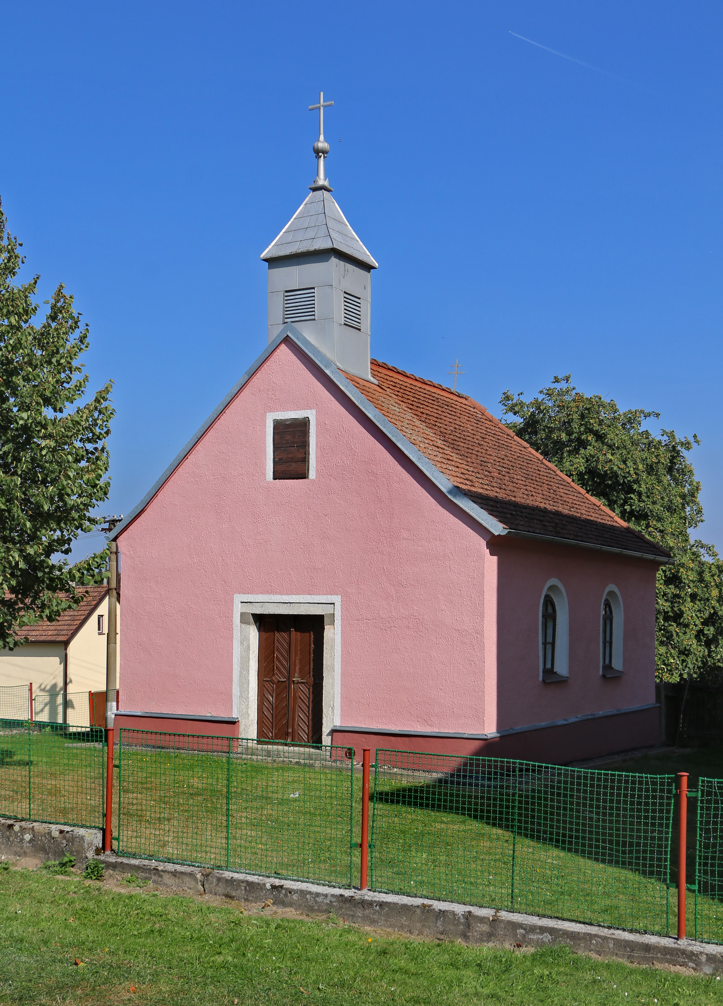 Small chapel in Bělá, Czech Republic.